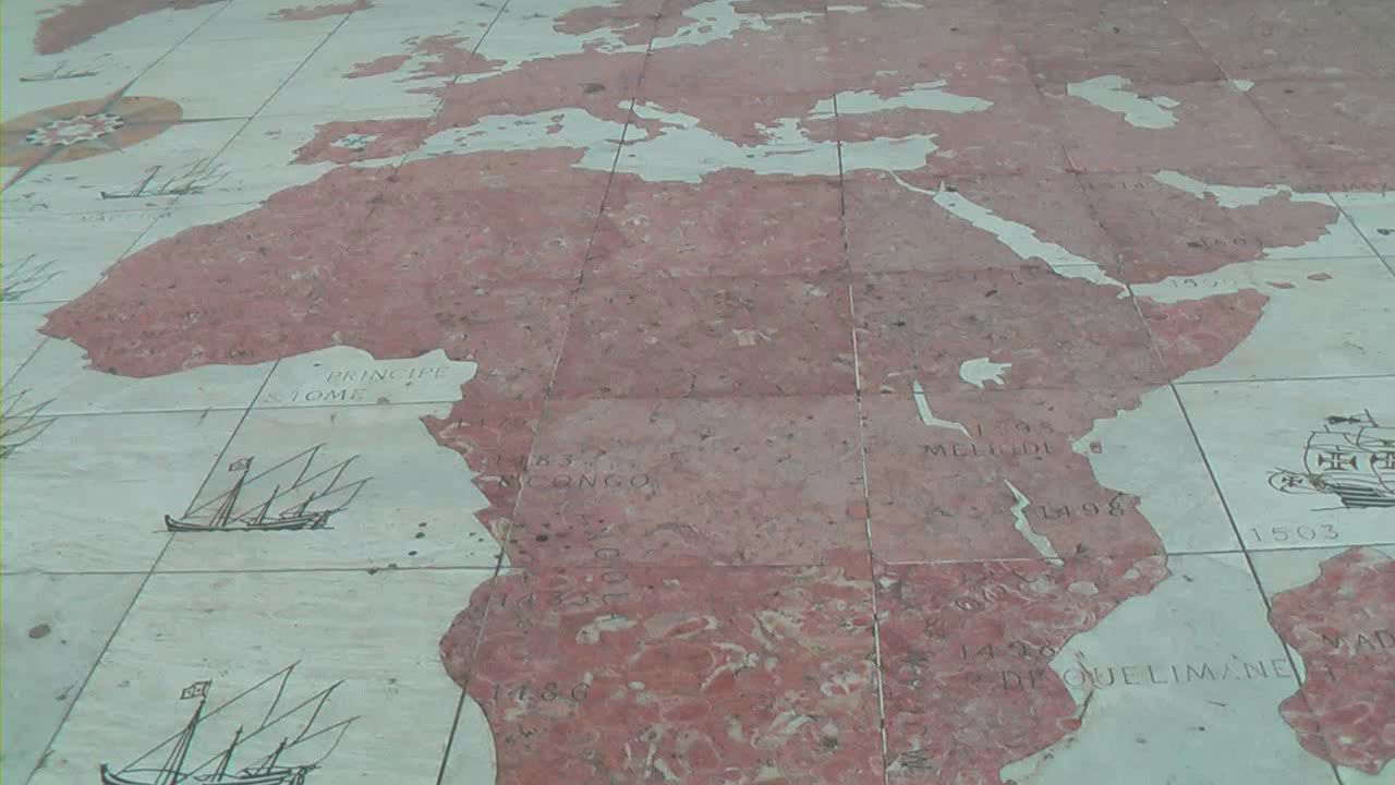 Pavement displaying Portugal overseas discoveries. Lisbon.